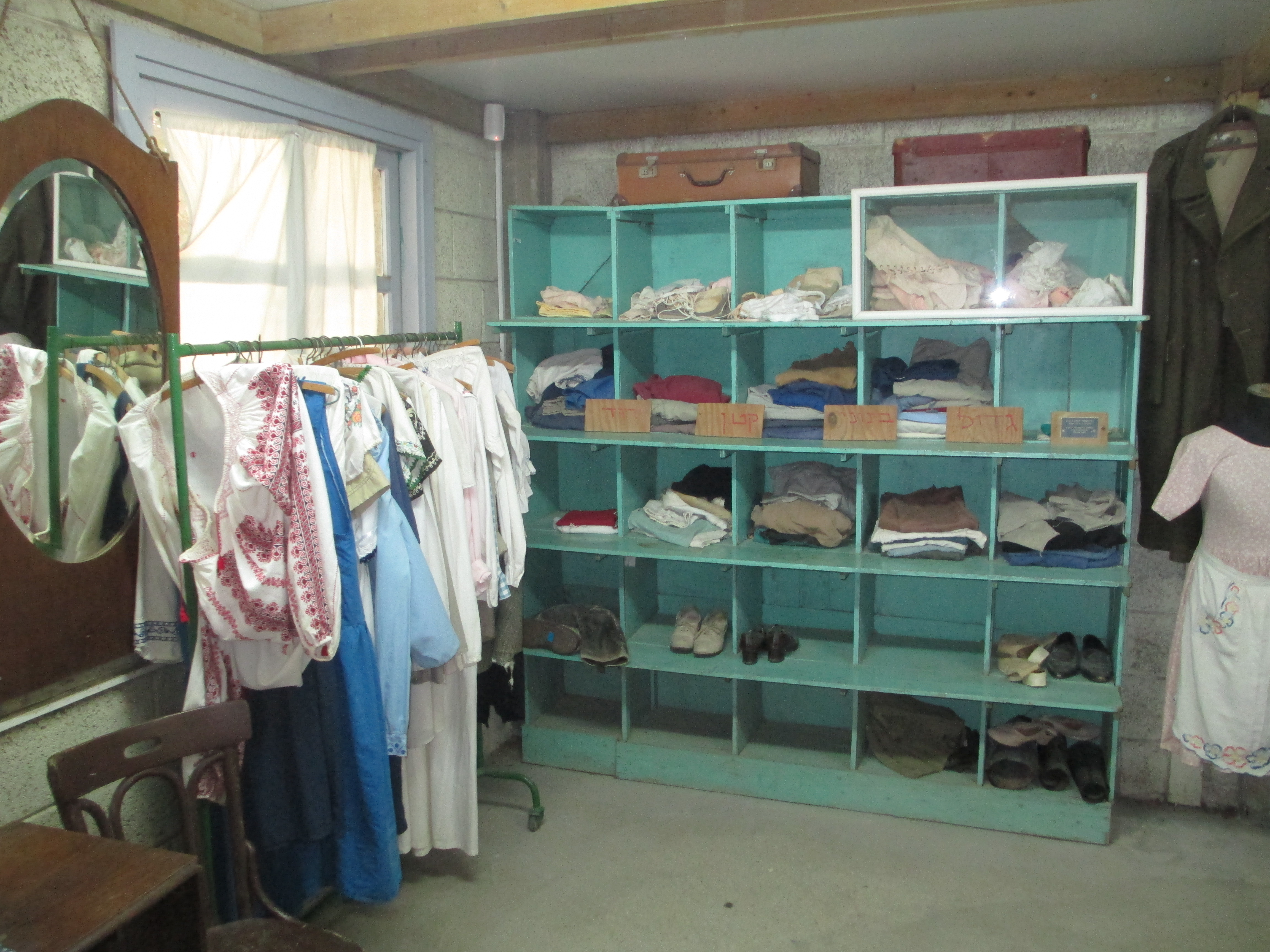 The Jezreel Valley Museum